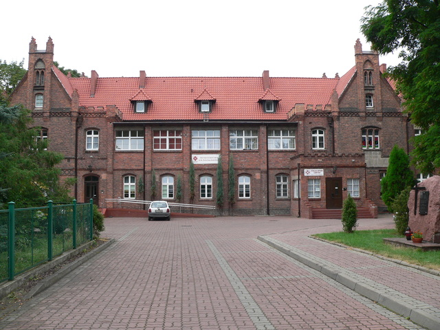 Entrance view of the Torunskie Centrum Caritas.